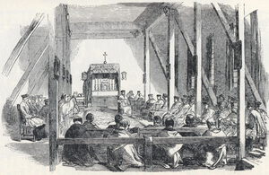 Synod of Thurles